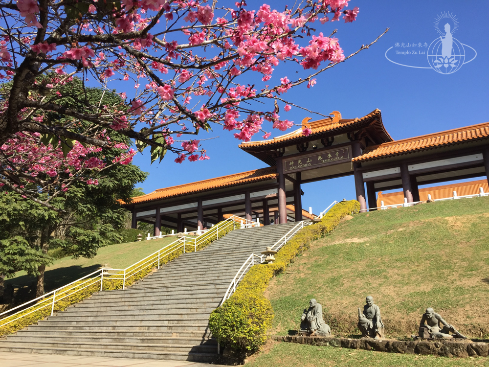 Main entrance of the Zu Lai Temple in a shiny day with statues flowers and greens around.